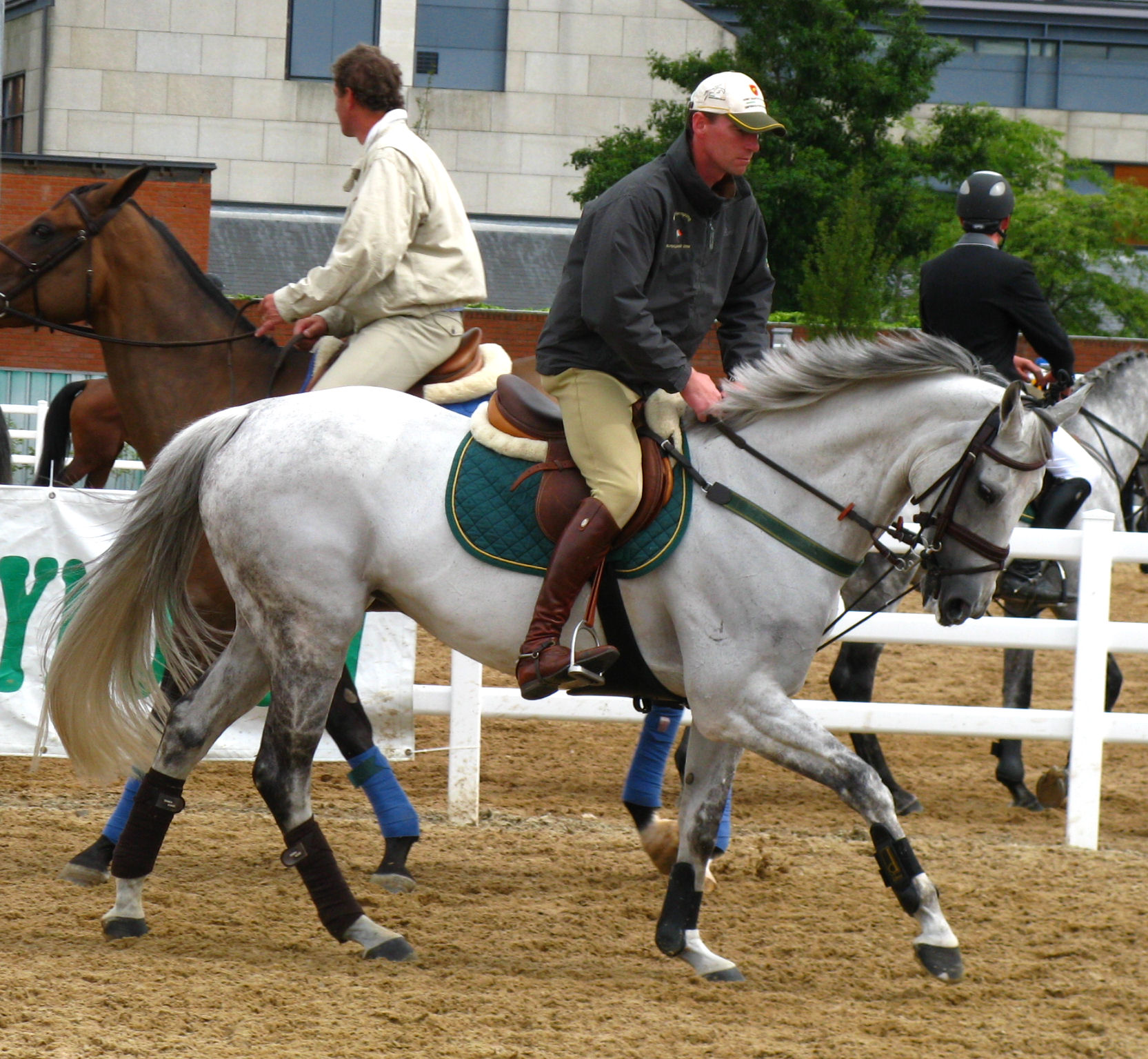 Mo Chroi (ISH) - 1997 grey mare by Cruising (ISH) out of Into The Blue (ISH), by Mister Lord (TB). Bred by Claire McDonnell, Co. Wicklow, Ireland. Owner: Minister for Defence. Rider: Capt. David O’Brien (Irl)